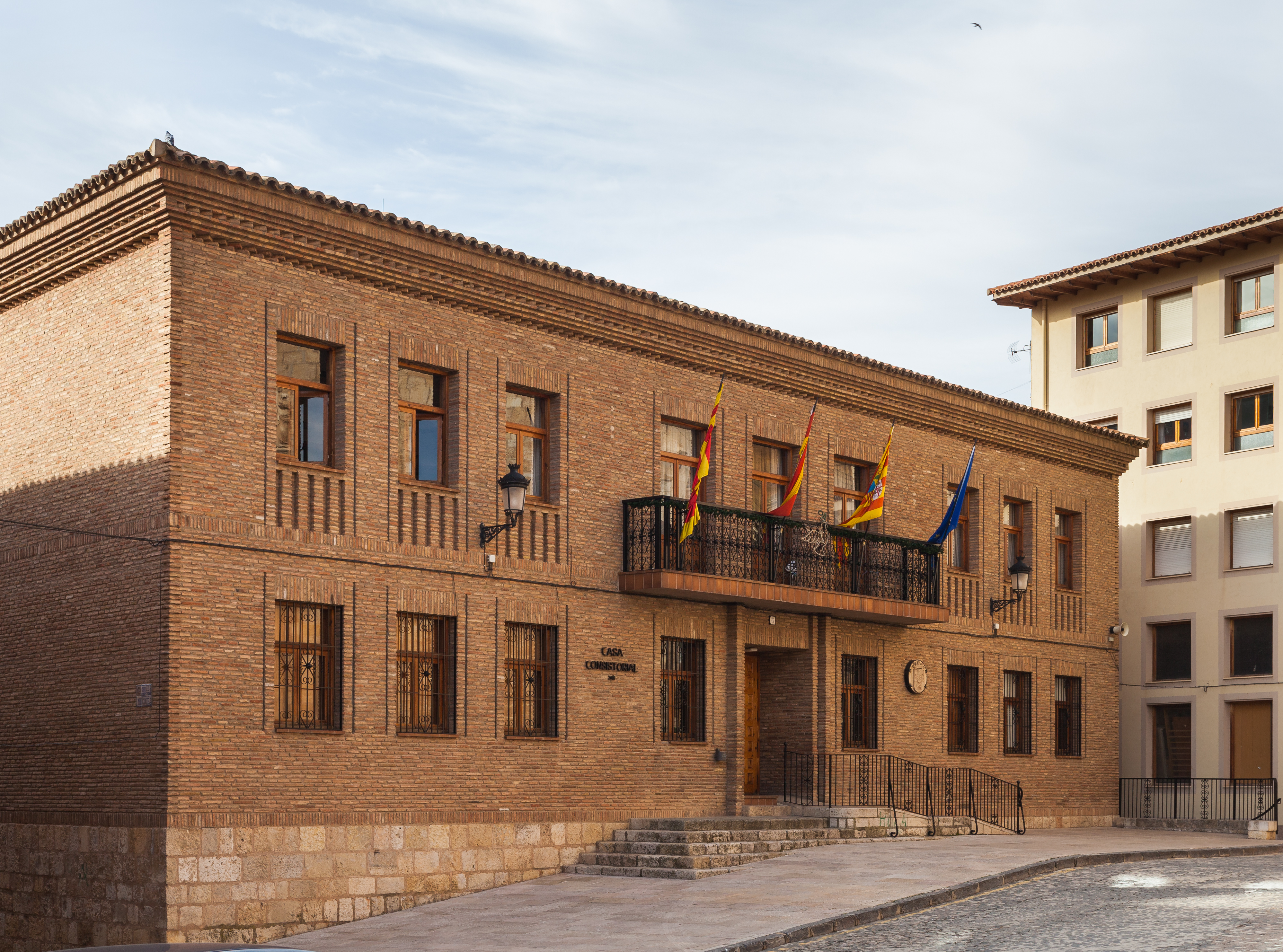 Town hall, Daroca, Zaragoza, Spain